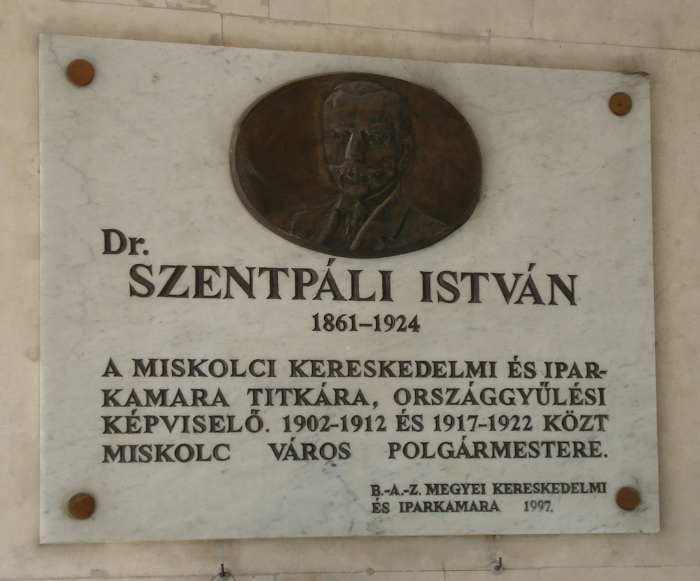 Relief of István Szentpáli (1861–1924), Mayor of Miskolc, Hungary